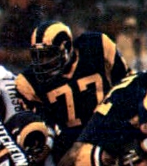 Los Angeles Rams offensive tackle Doug France in an offensive play against the Minnesota Vikings in the in the 1977 NFC Divisional Playoff Game on December 26, 1977.